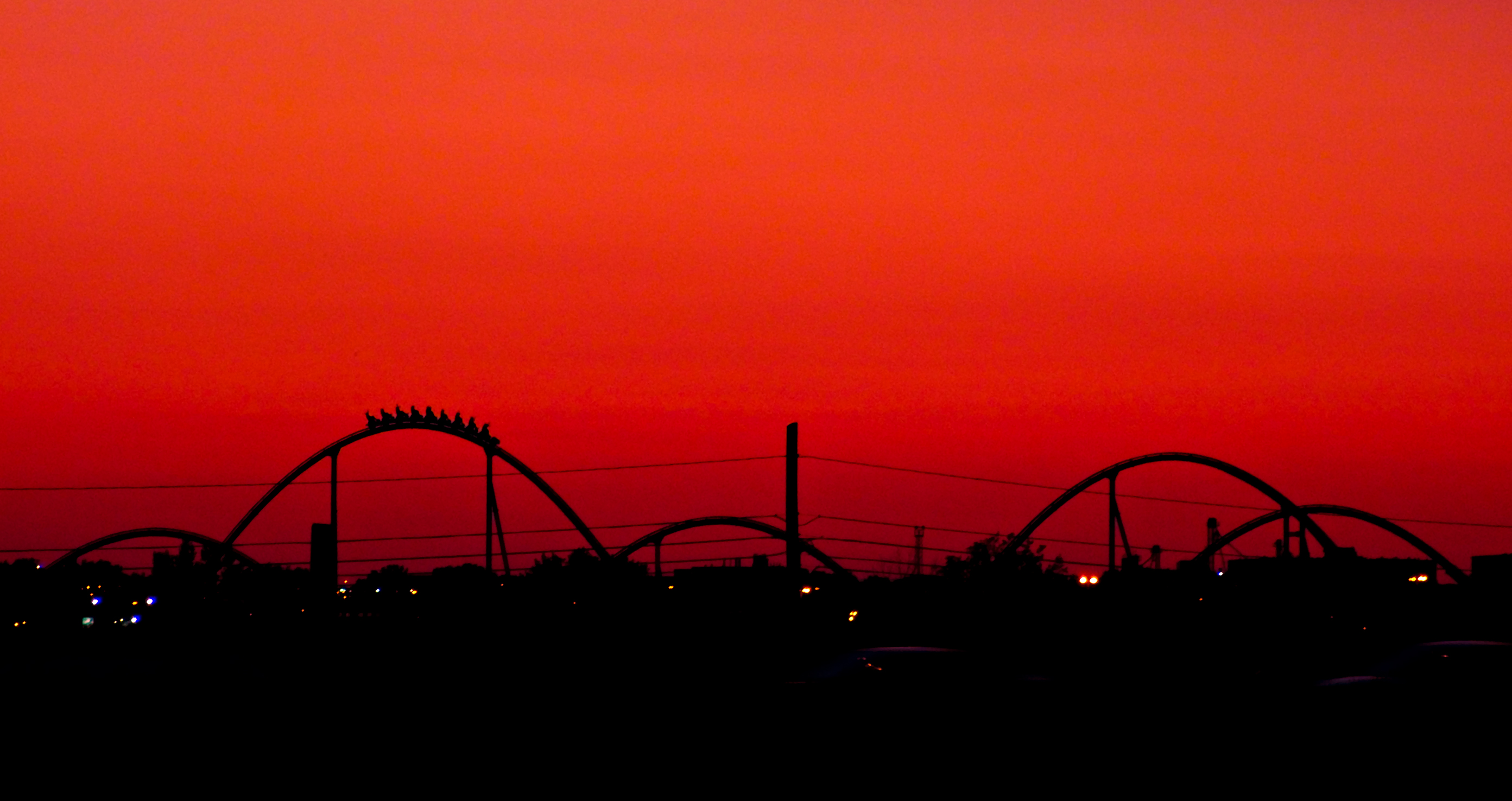 A very late evening view from Longueuil